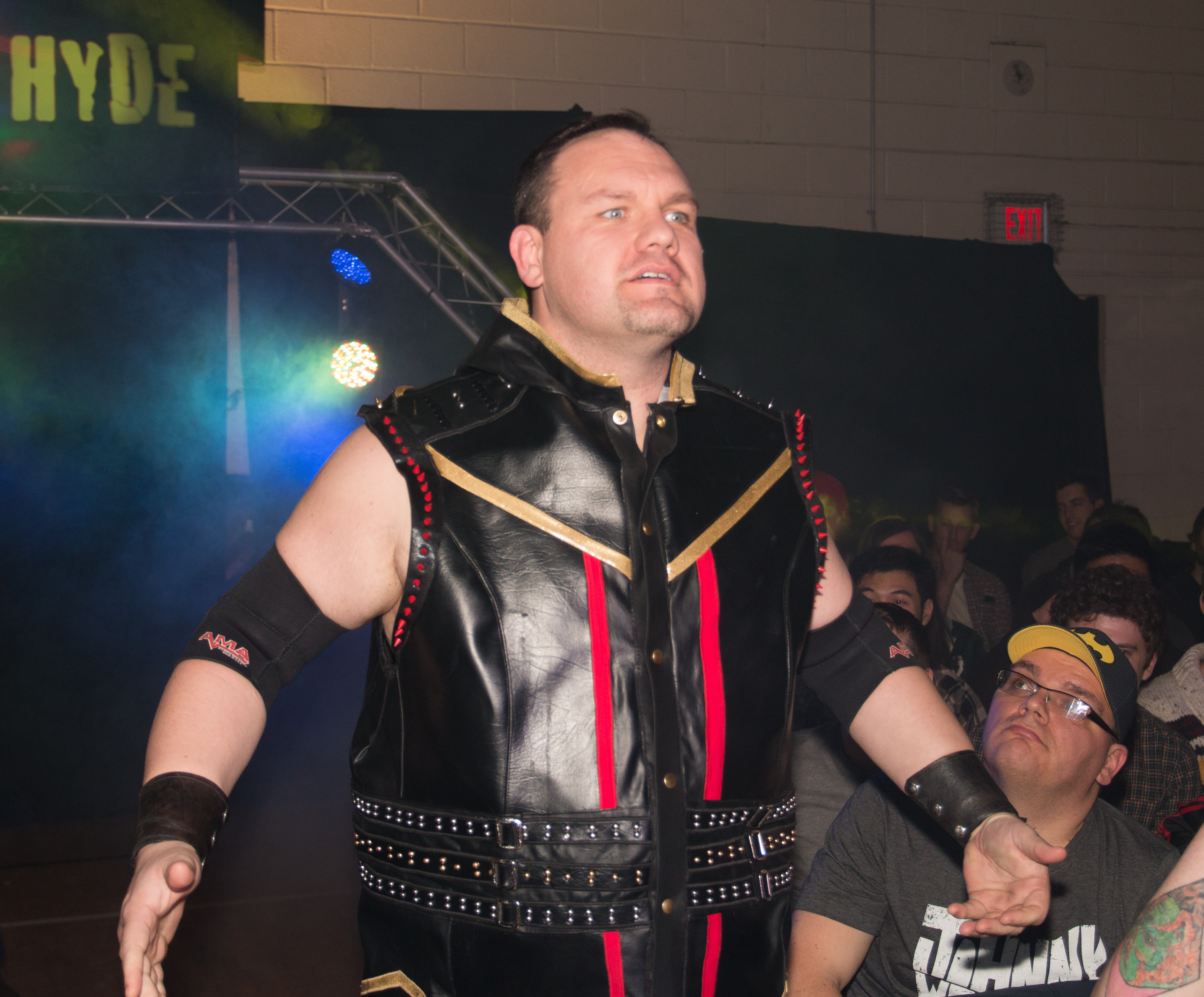 Independent wrestler DJ Hyde making his ring entrance at Smash Wrestling in Etobicoke, ON